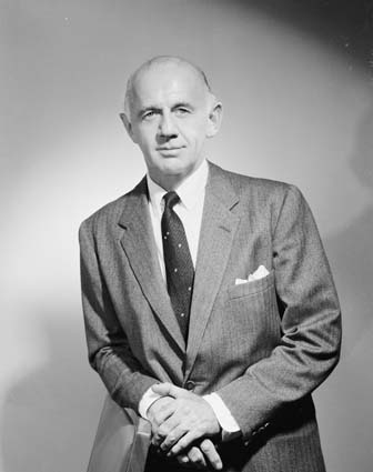 A 1963 black and white portrait of William McMahon, MHR for Lowe